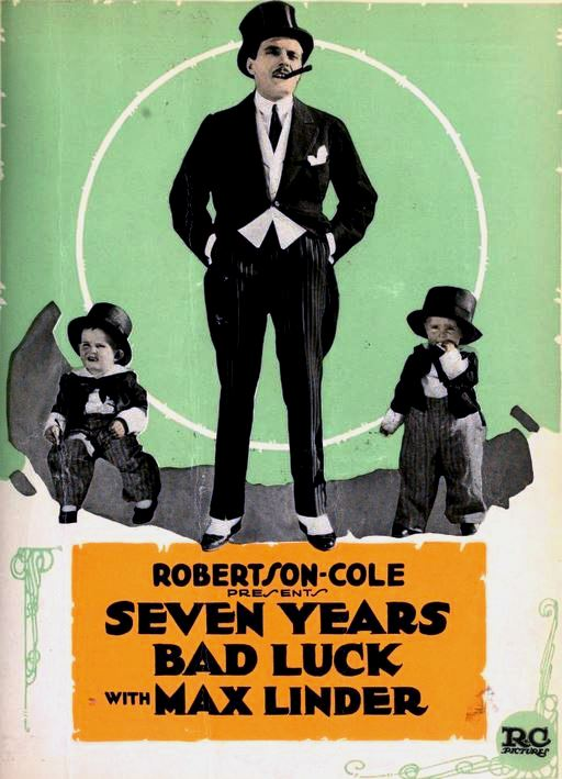 Ad for the American film Seven Years Bad Luck (1921) with Max Linder, facing page 12 of the February 20, 1921 Film Daily.